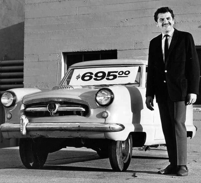 Publicity photo of Ernie Kovacs from his 1960-1961 ABC specials for a 1968 ABC special, The Comedy of Ernie Kovacs. Kovacs is shown performing one of a series of short "used car dealer" gags. In the one represented by this still, he slaps the fender lightly and the car falls through the floor.